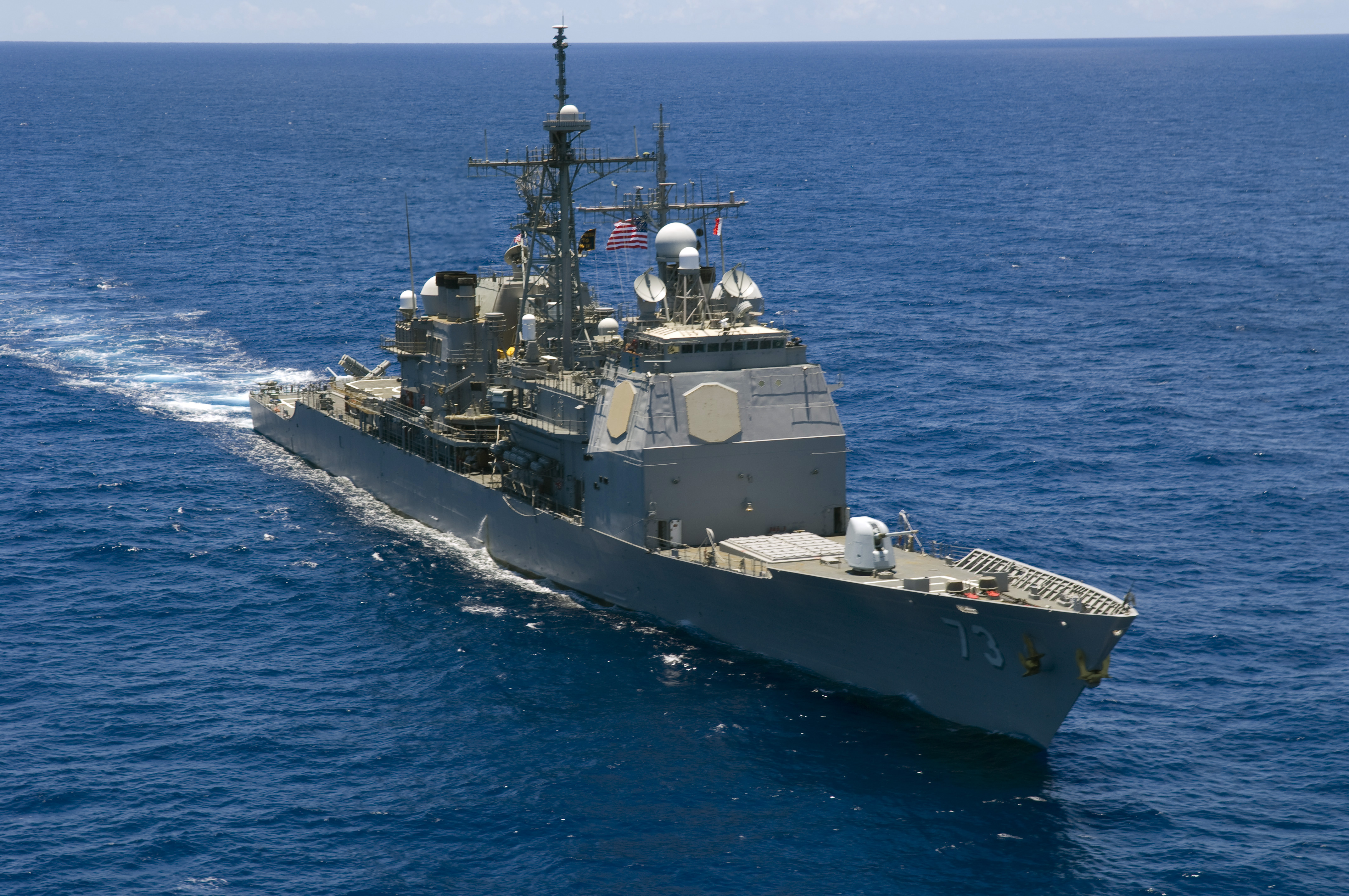 080713-N-7949W-059 PACIFIC OCEAN (July 13, 2008) The guided-missile cruiser USS Port Royal (CG 73) flies its "house flag" from the starboard halyard while off the coast of Hawaii during Rim of the Pacific (RIMPAC) 2008. RIMPAC is the world's largest multinational exercise scheduled biennially by the U.S. Pacific Fleet. Participants include the United States, Australia, Canada, Chile, Japan, the Netherlands, Peru, Republic of Korea, Singapore, and the United Kingdom.